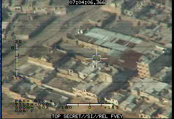 Video sample obtained by NSA/GCHQ from Ababil III (Iranian manufactured) UAV operating from Shayrat Airfield, Syria. Collected on an undocumented frequency of 1208MHz. Published in US government document. Released as part of Edward Snowden hacks.